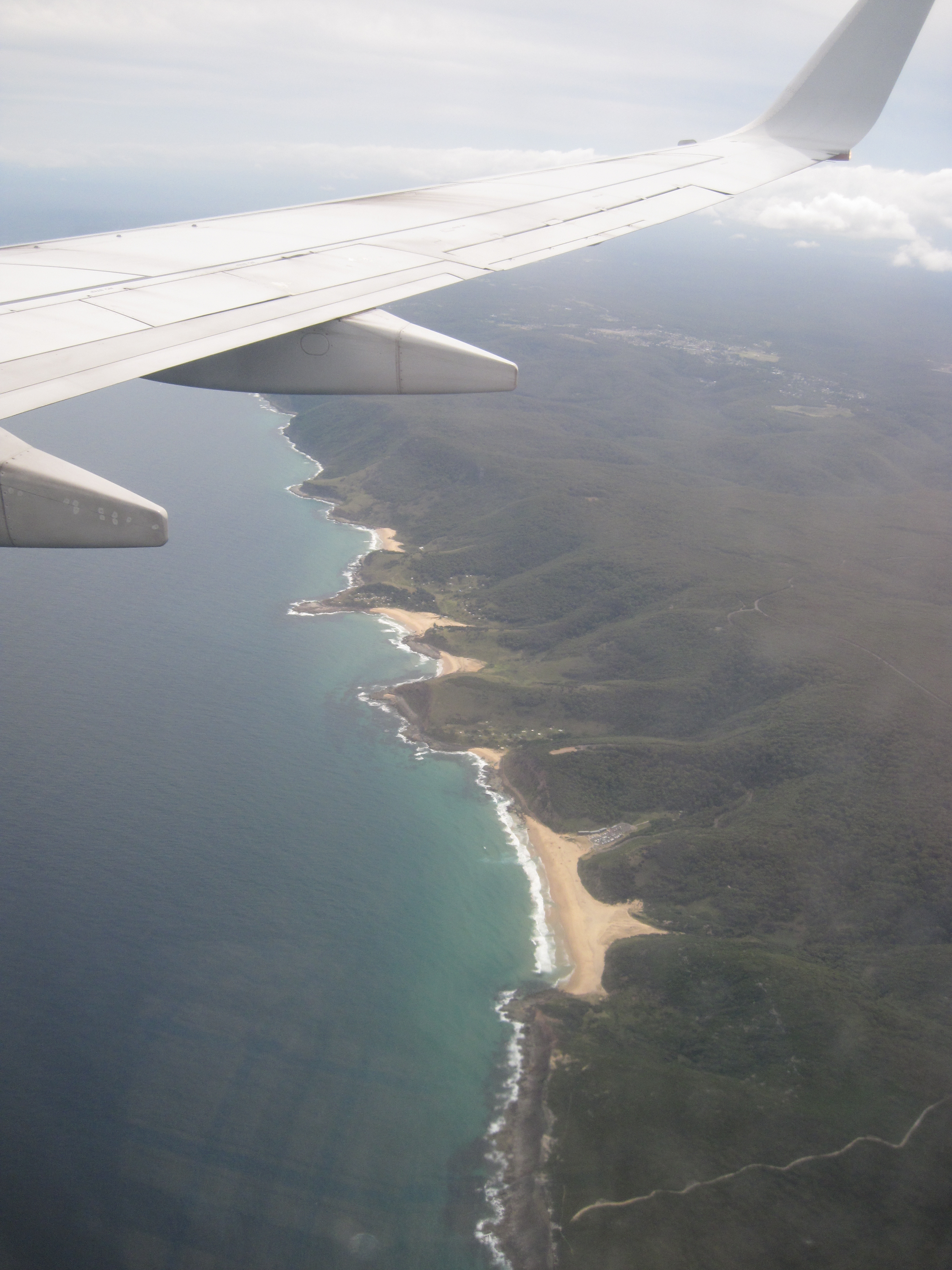 Helensburgh, New South Wales